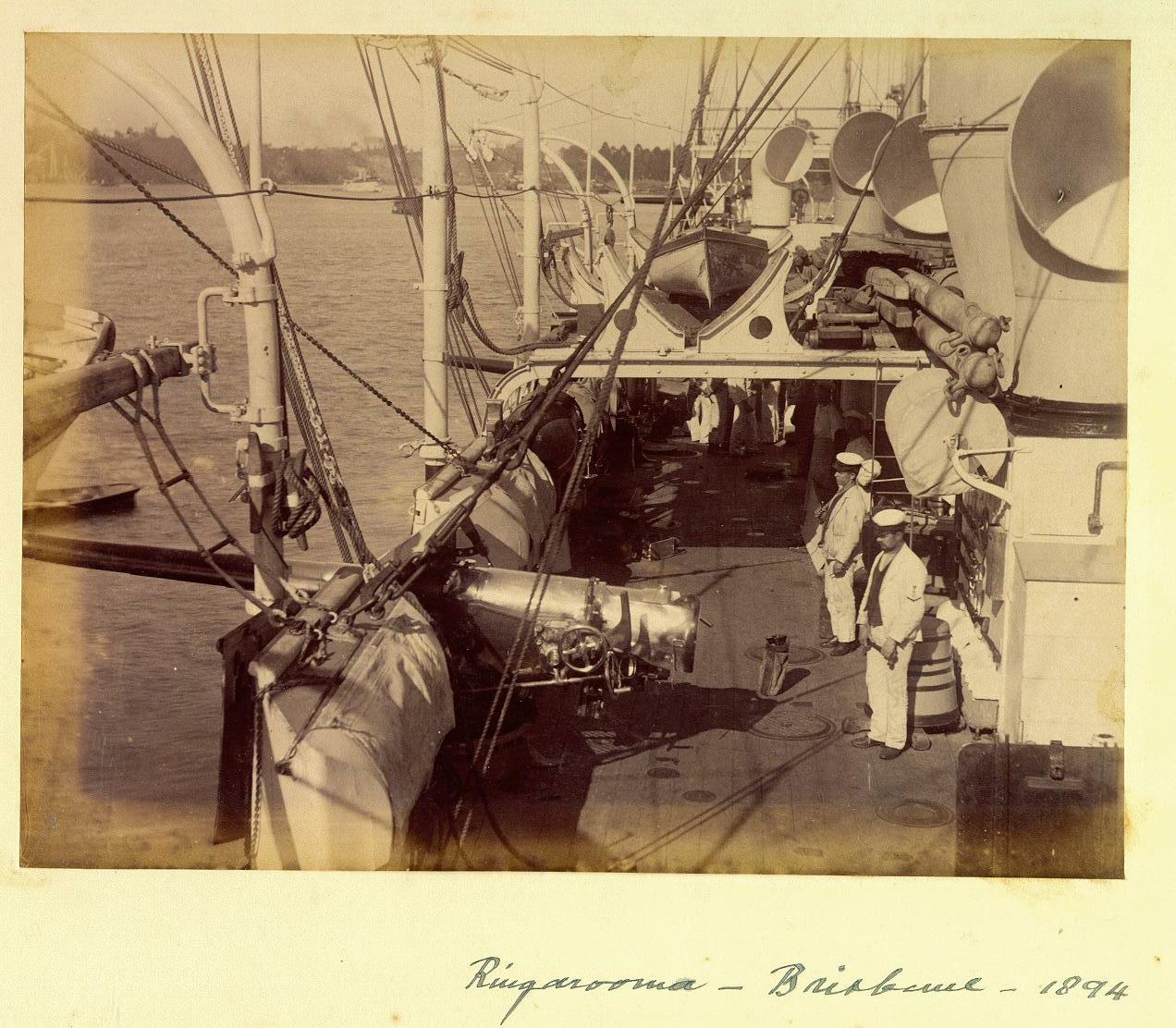 Photograph showing QF 4.7-inch gun and crew, on British cruiser HMS Ringarooma (formerly HMS Psyche) , Brisbane.